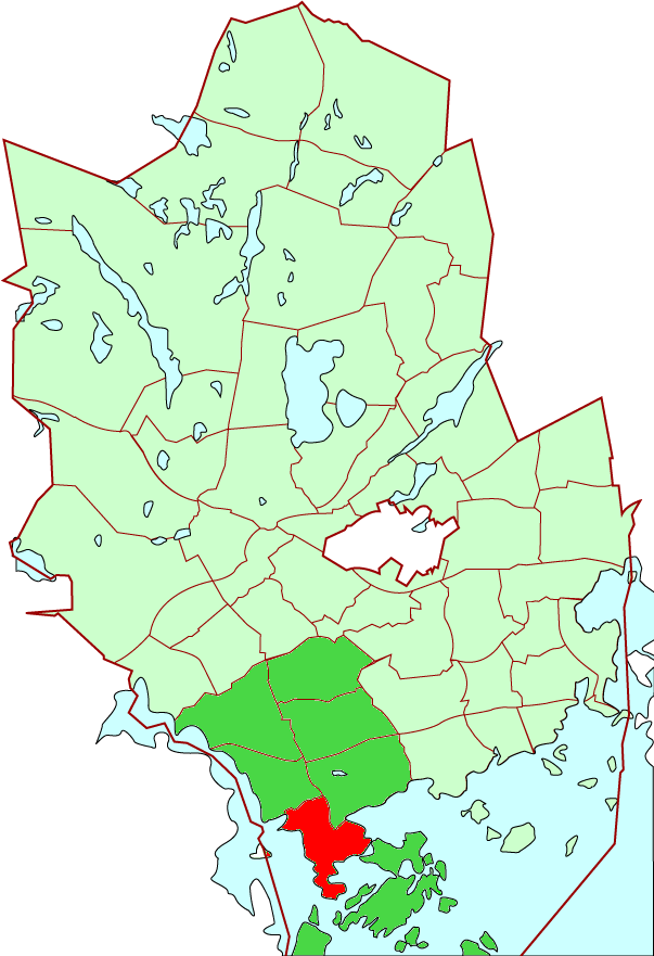 Soukka/Sökö district in Espoo city, Finland